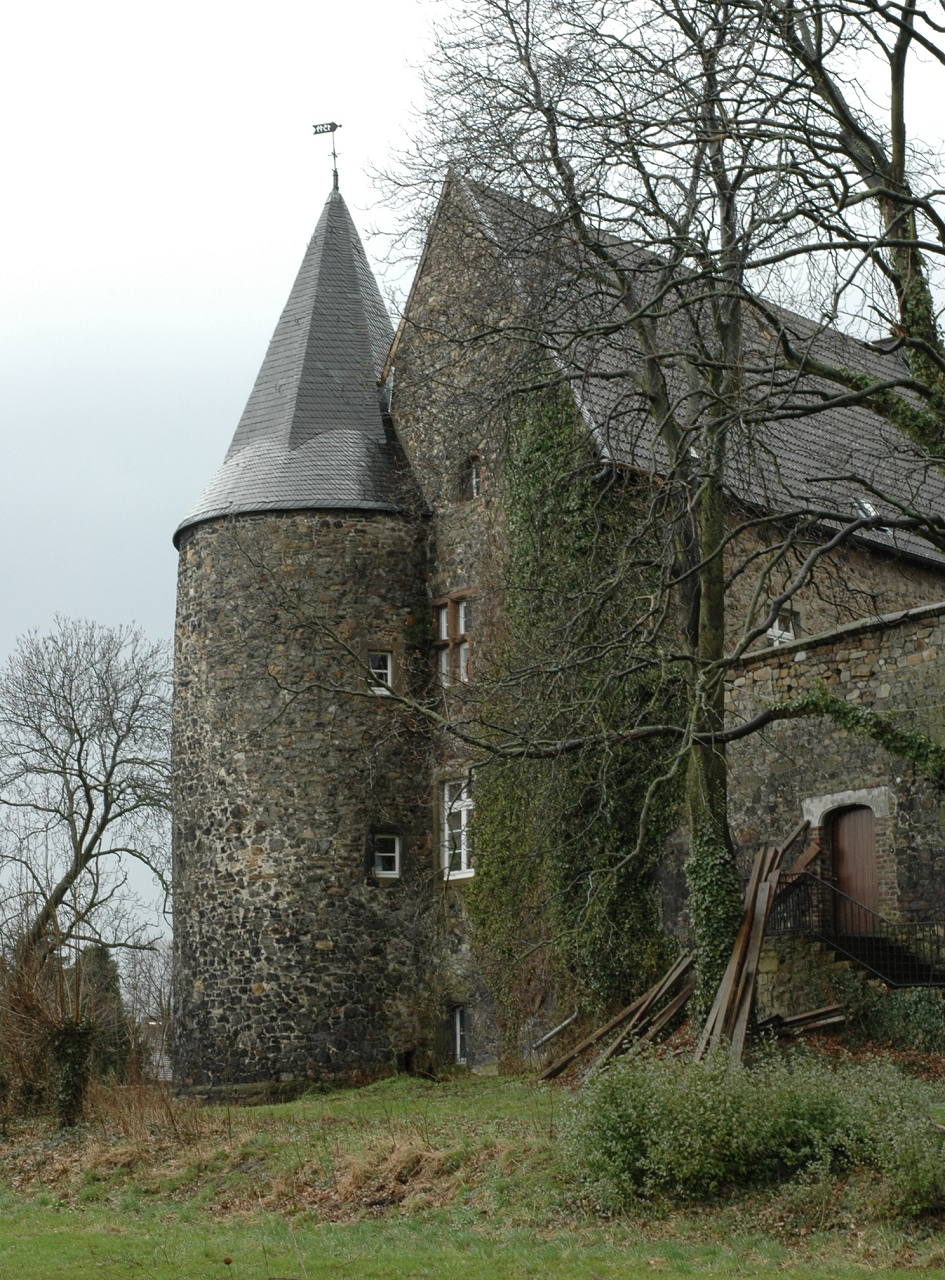 Castle of Roethgen in Eschweiler, Germany, north-eastern wing with tower